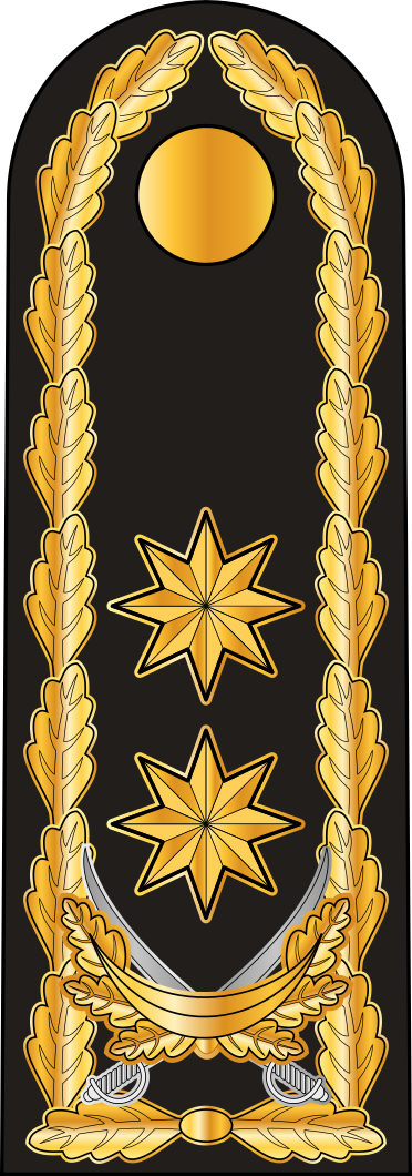 Vice Admiral of Azerbaijan's Navy